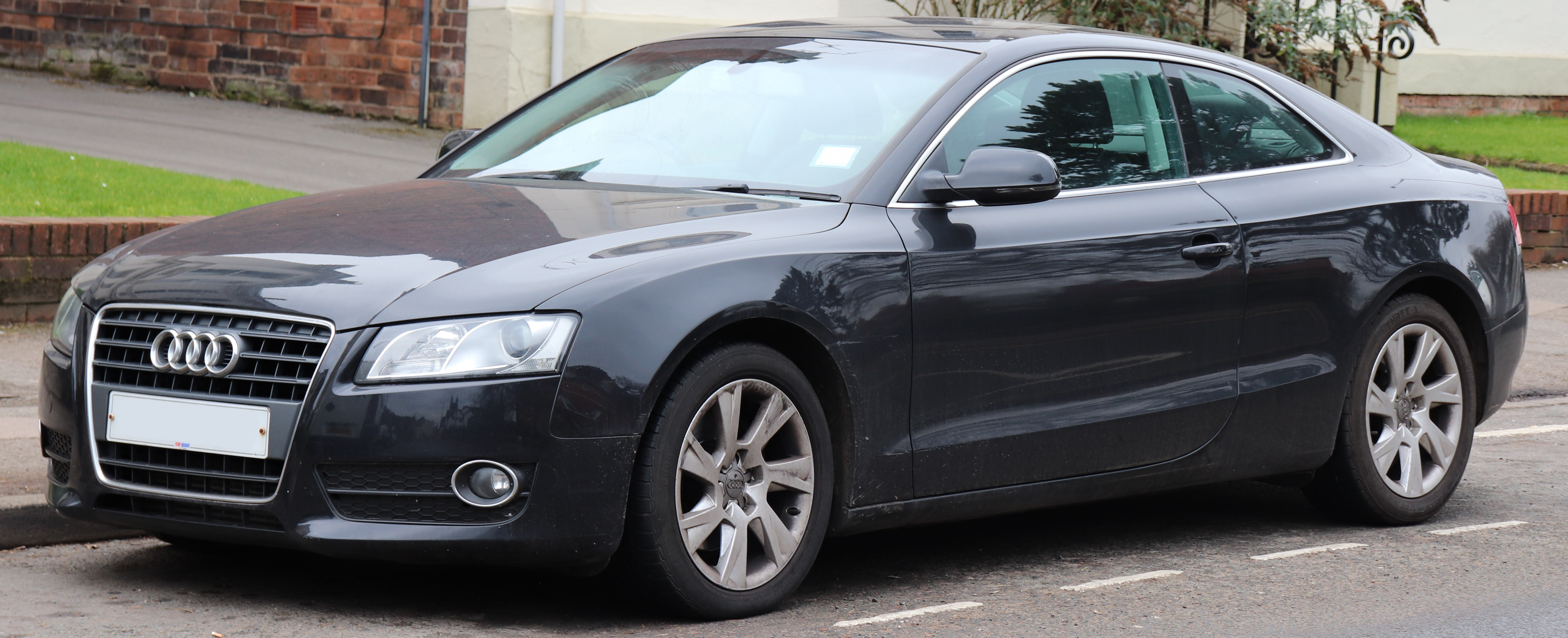 2010 Audi A5 SE TDi 2.0 Front Taken in Leamington Spa